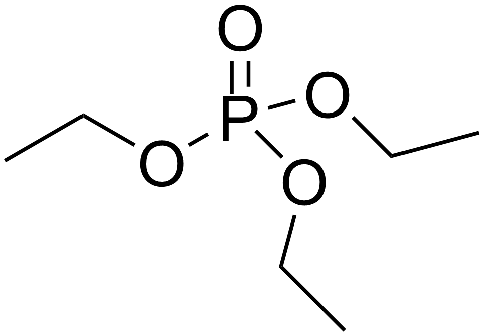 chemical structure of triethyl phosphate